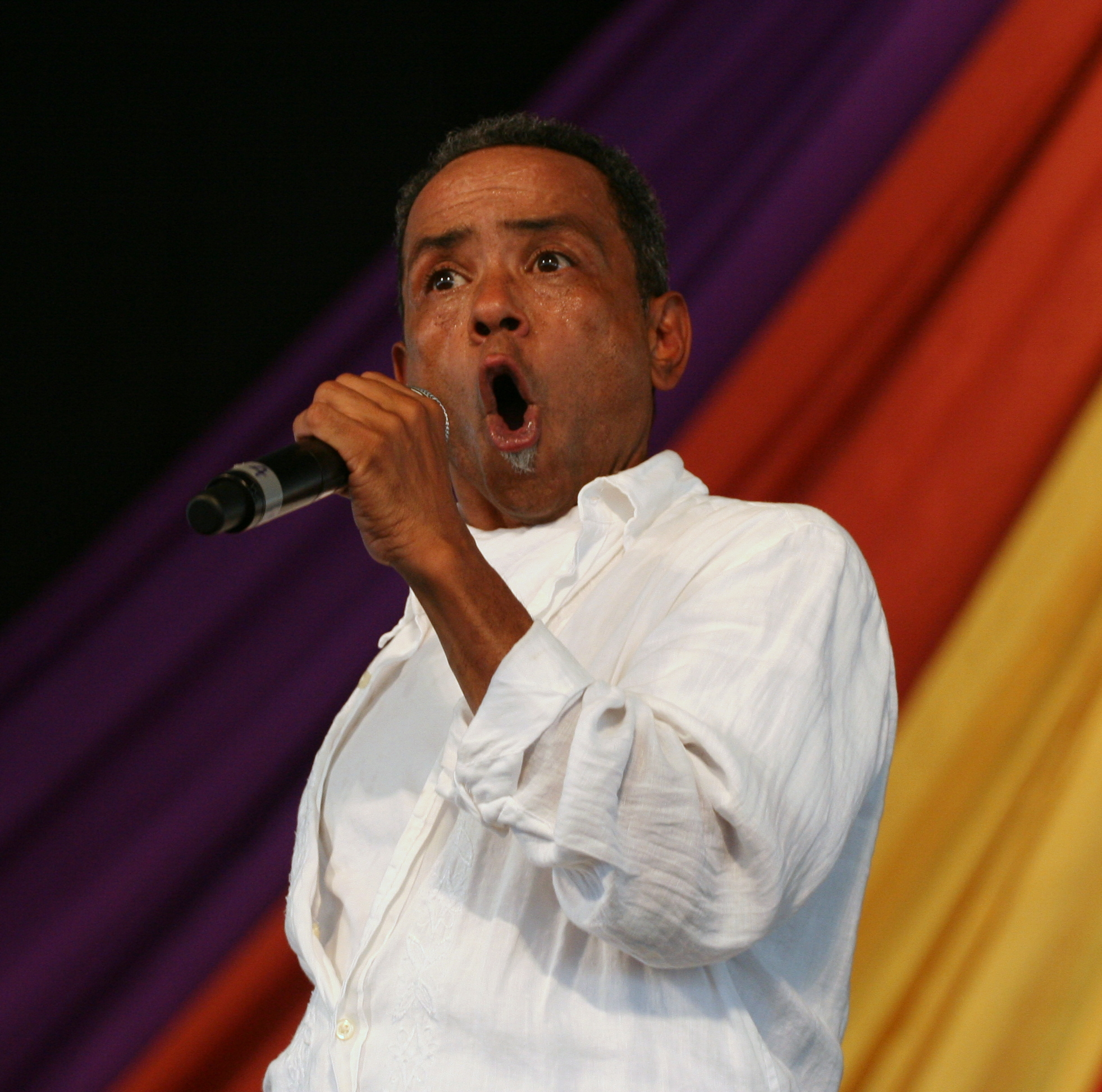 Gospel Tent Sunday, May 6